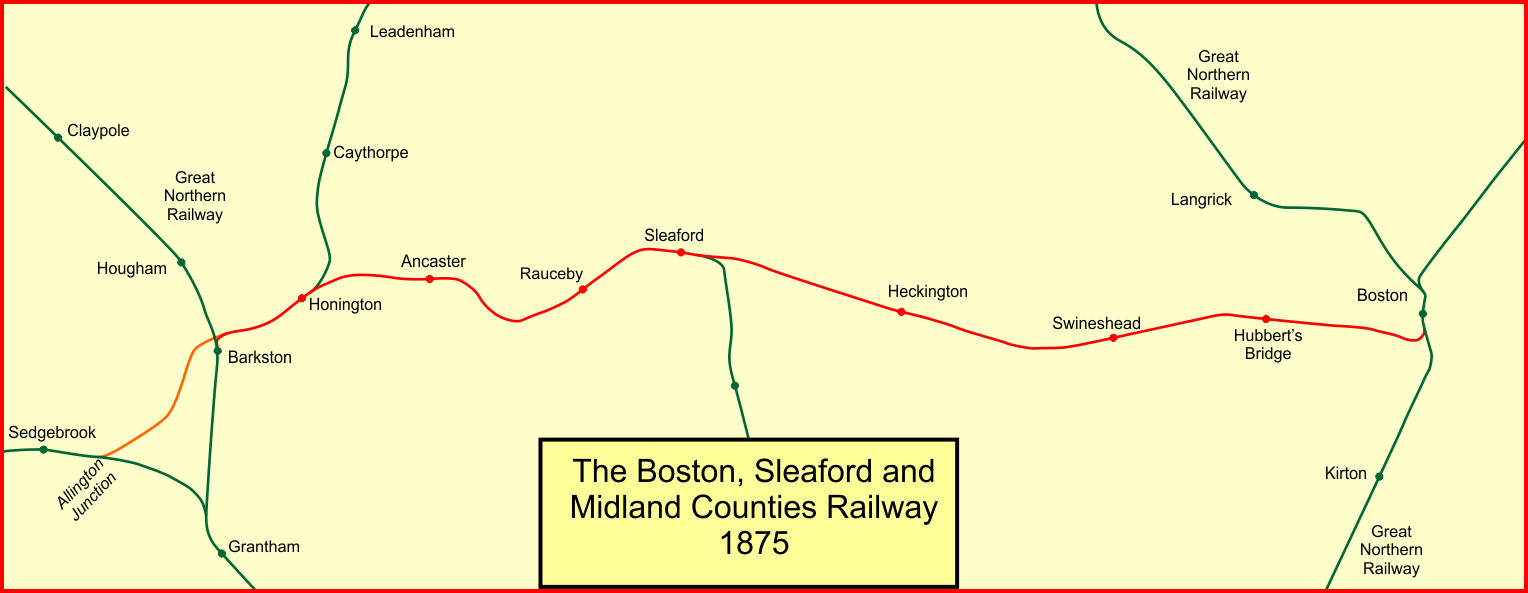 System map of the Boston, Sleaford and Midland Counties Railway, Lincolnshire, England, in 1875